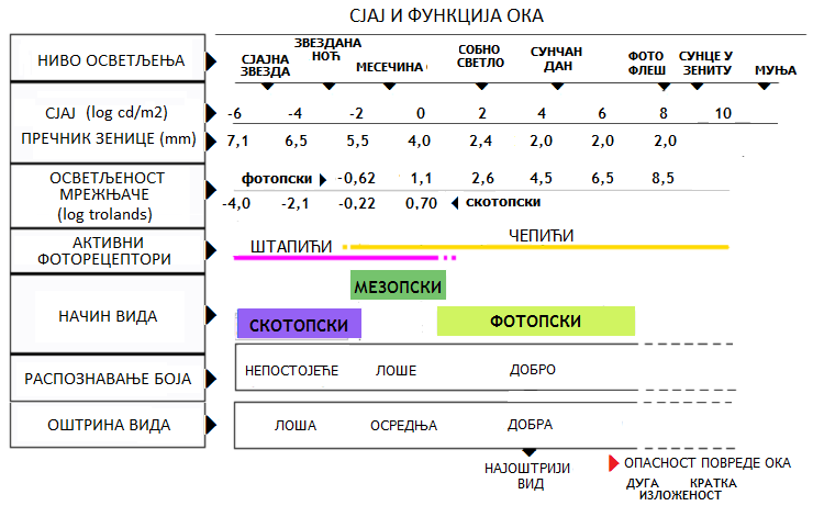 ПРОМЕНА СВОЈСТАВА ВИДА СА НИВООМ ОСВЕТЉЕЊА